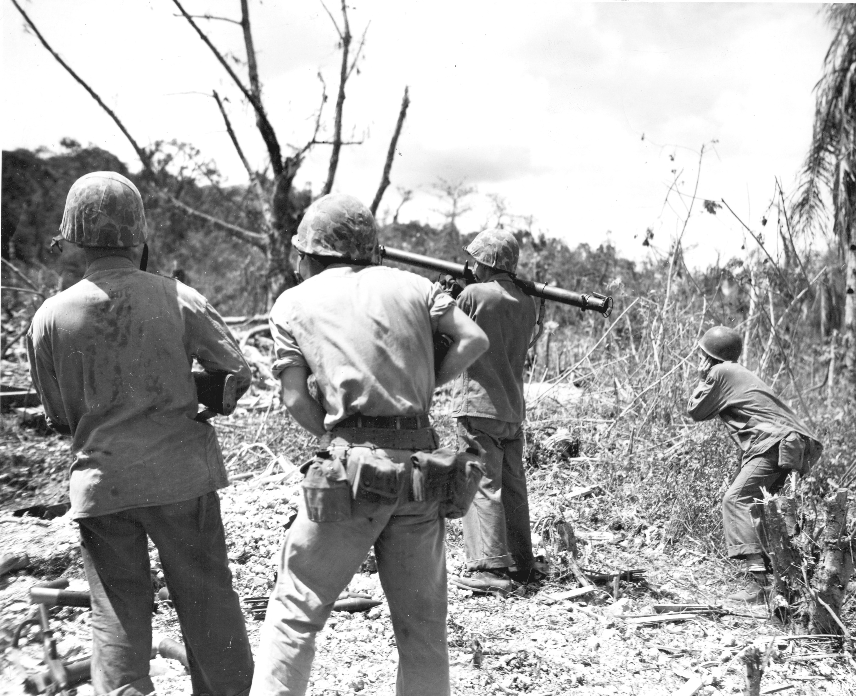 BAZOOKA TEAM – Marine riflemen and a bazooka team congregate their fire upon enemy snipers. The Japs took to the hills on Peleliu and in the jagged terrain forced the Marines to painstakingly search every good of ground, killing the snipers one at a time.